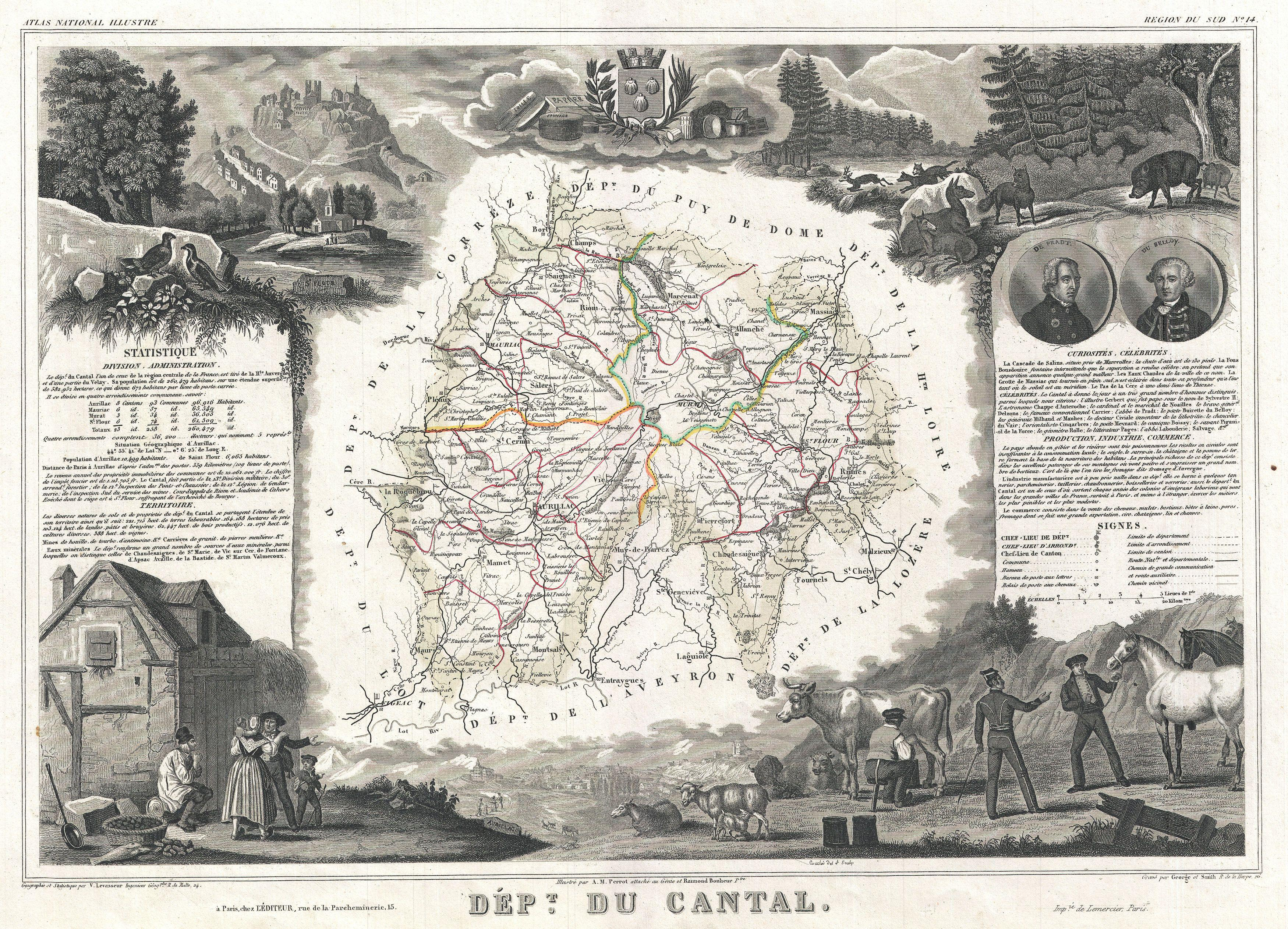 This is a fascinating 1857 map of the French department of Cantal, France. This area of France is known for its production of Cantal, a firm cheese, named after the region. The whole is surrounded by elaborate decorative engravings designed to illustrate both the natural beauty and trade richness of the land. There is a short textual history of the regions depicted on both the left and right sides of the map. Published by V. Levasseur in the 1852 edition of his Atlas National de la France Illustree.